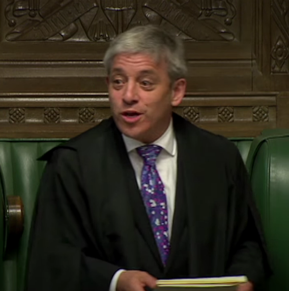 The Right Honourable John Simon Bercow, Member of Parliament for Buckingham, in the Speaker's chair in the Chamber of the House of Commons